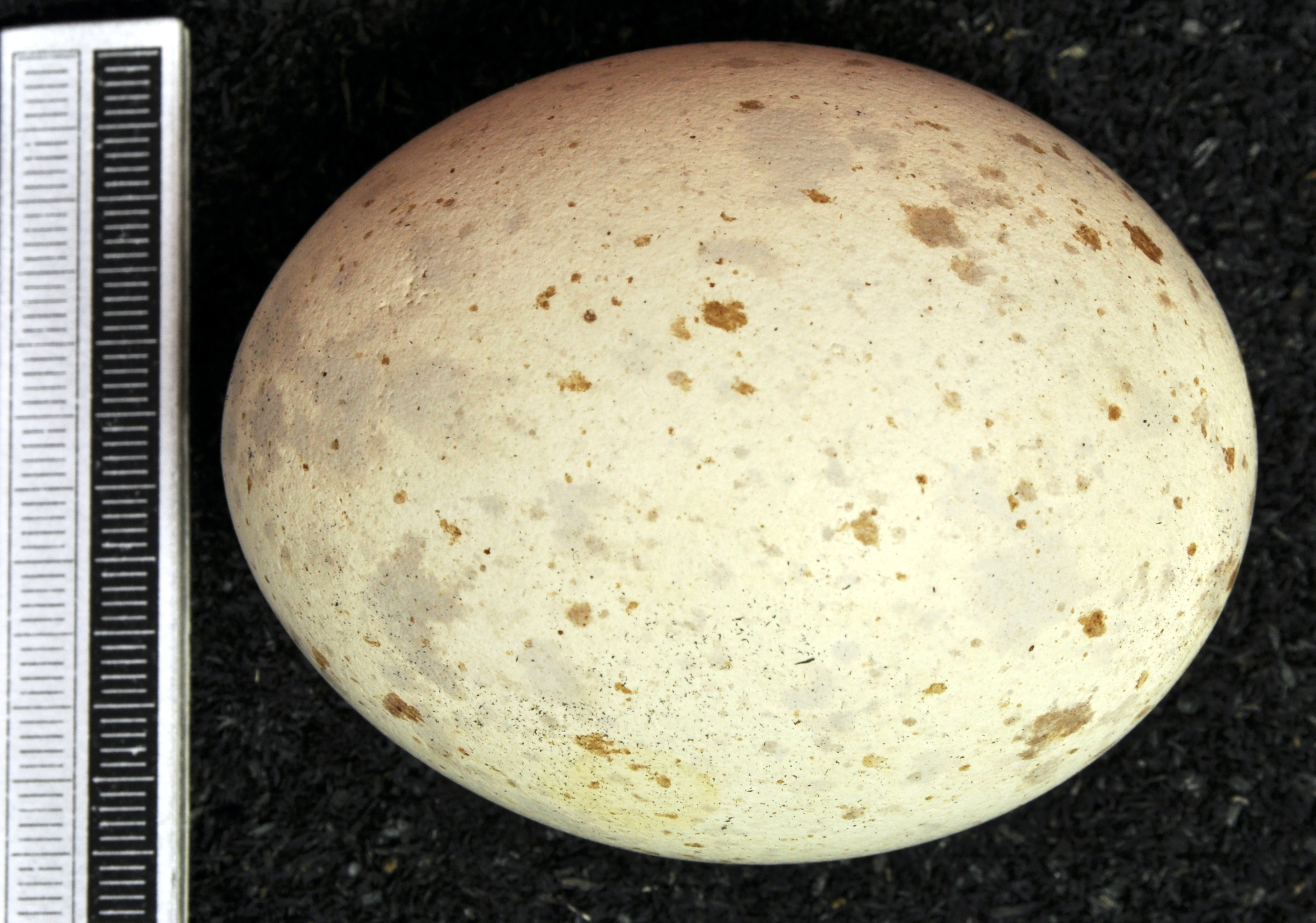 Steppe eagle Aquila nipalensis , egg, Coll. Museum Wiesbaden